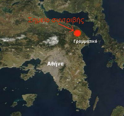 Crash area of the Helios Airways Boeing 737-300 flight